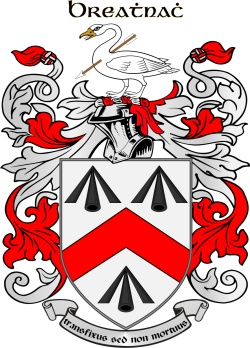 The Walsh crest with banner and swan